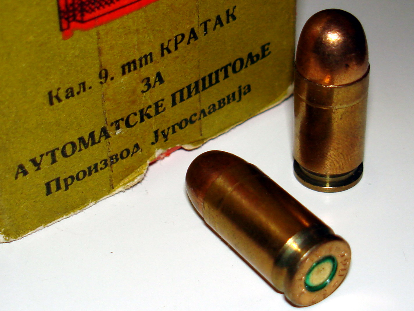 Yugoslavian .380 ACP (9 x 17 mm) cartridges. Text on the box says: "Kal. 9 mm KRATAK, ZA AUTOMATSKE PIŠTOLJE, Proizvod Jugoslavija." (Cal. 9 mm SHORT, FOR AUTOMATIC PISTOLS, Made by Yugoslavia).